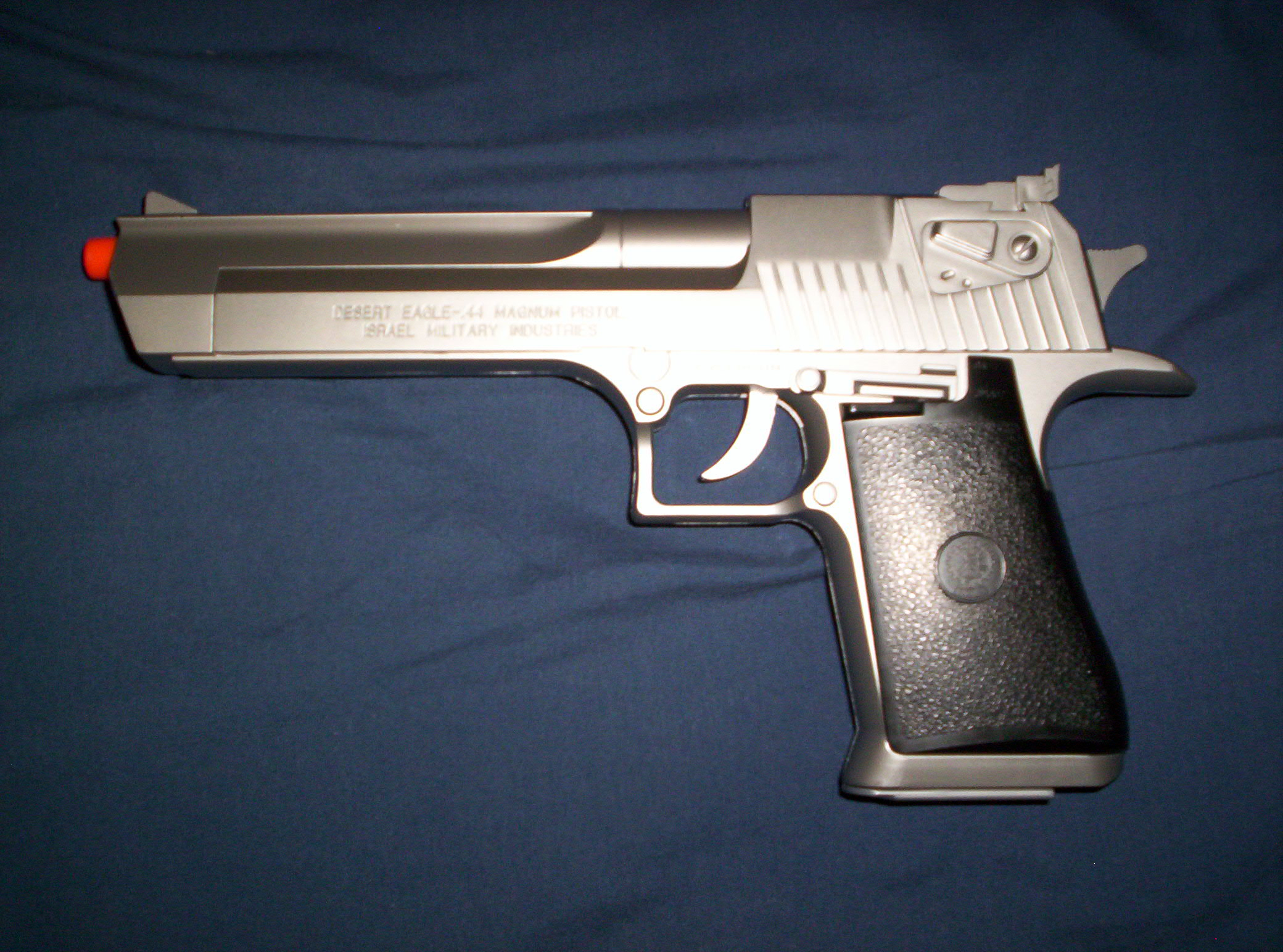 My Desert Eagle .44 Magnum Spring Airsoft Gun